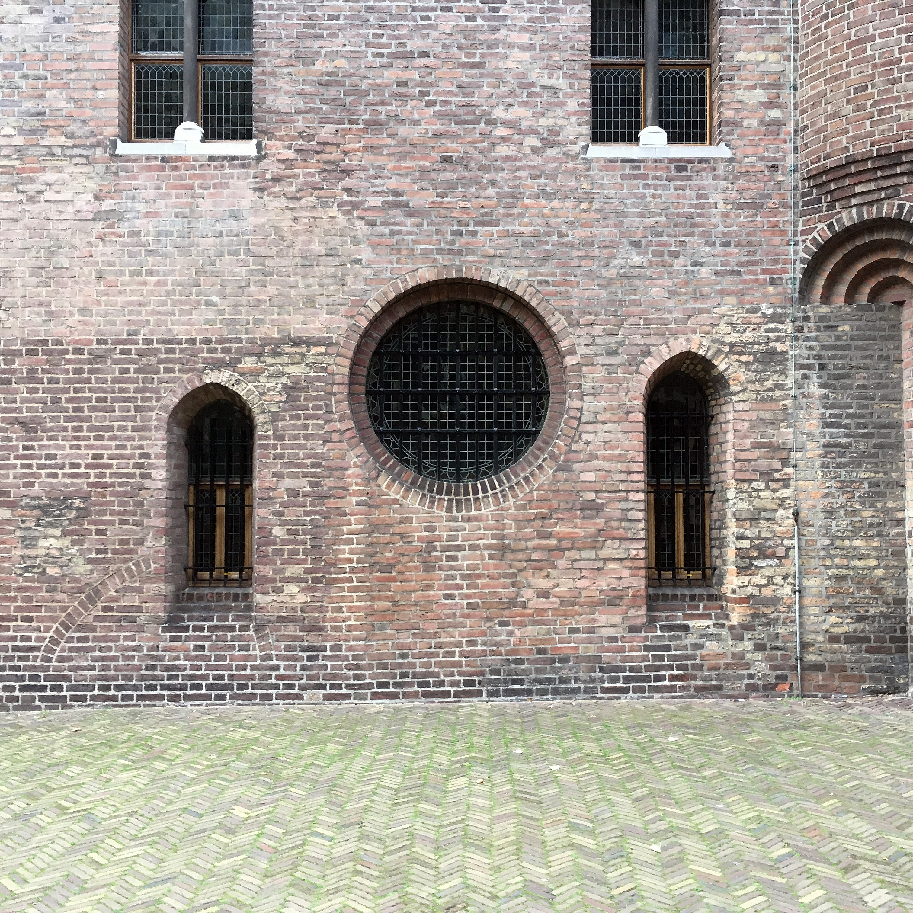 The three windows of the cellar hall under the Rolzaal. The vaulted cellar has a length of 24.5 meters and a width ranging from 8.77 meters on the south side to 9.07 meters on the north side. Partly due to the raising of the ground on the Binnenhof in the late Middle Ages, the hall is now partly below ground level. Little is known about the original function and the use of the so called cellar hall, which really isn't a cellar at all.